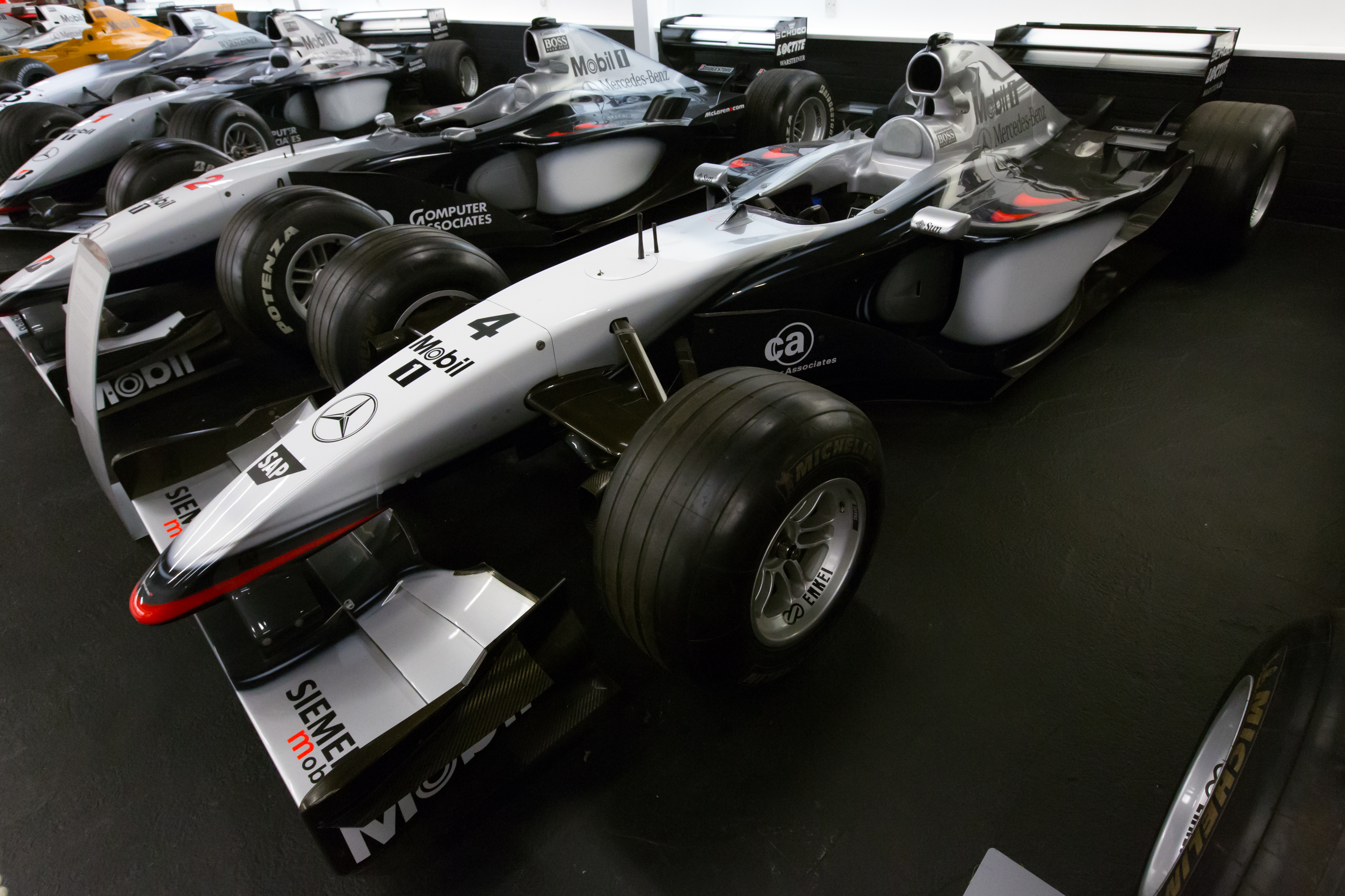 2002 McLaren MP4-17